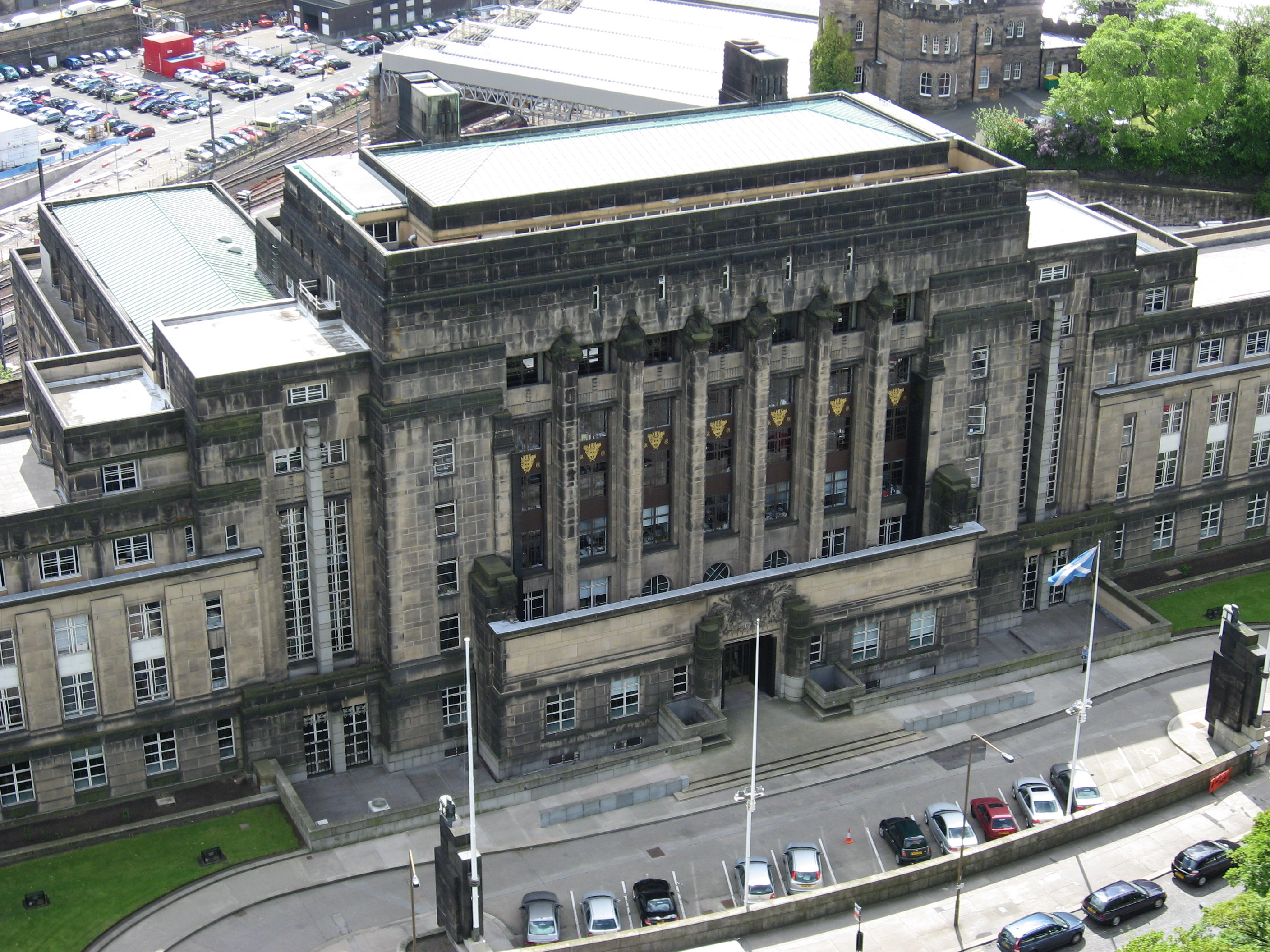 St Andrew's House, Edinburgh, from Nelson's Monument, Calton Hill. Photo taken by Alan Ford, 2006-05-25.